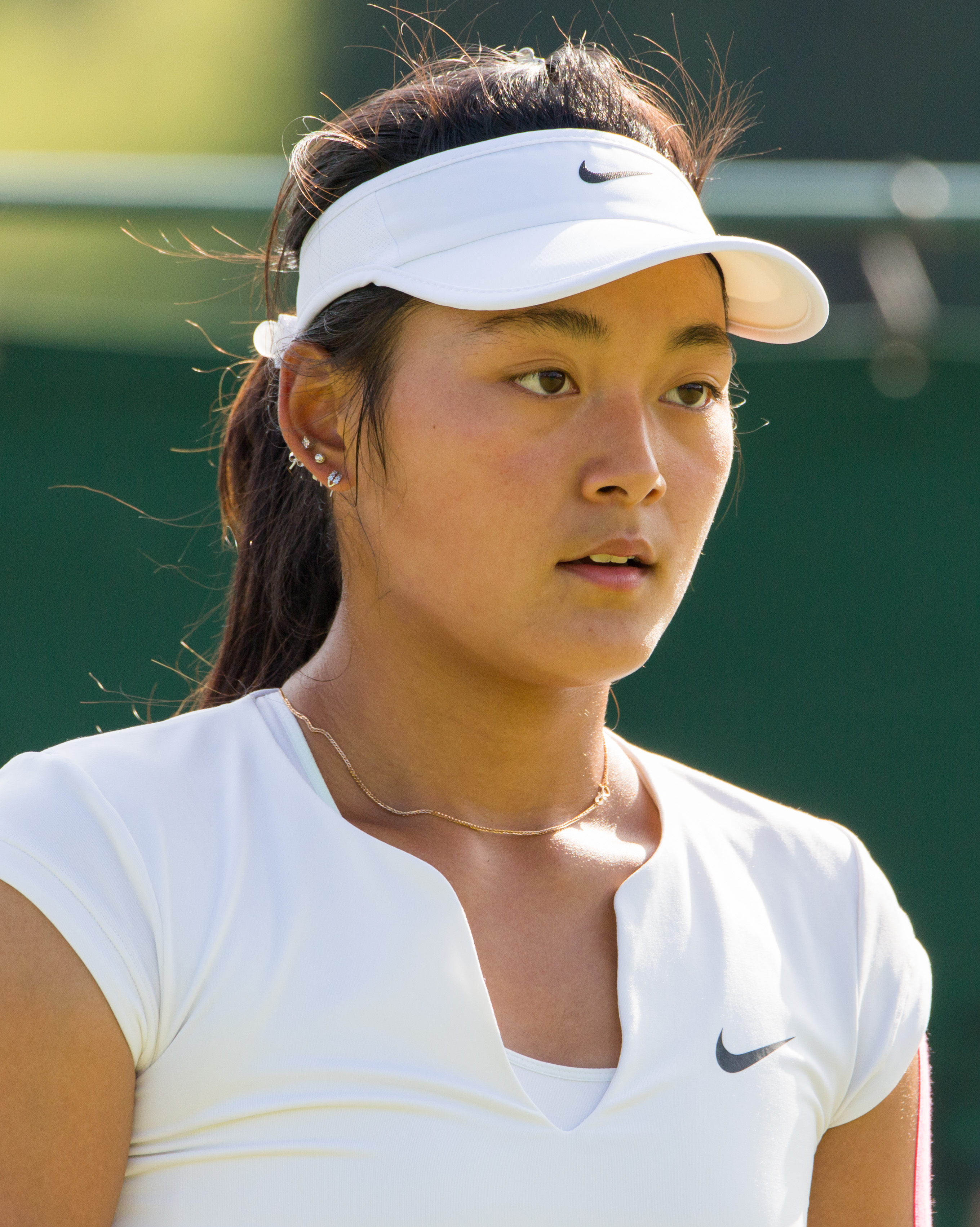 Wang Yafan competing in the first round of the 2015 Wimbledon Qualifying Tournament at the Bank of England Sports Grounds in Roehampton, England. The winners of three rounds of competition qualify for the main draw of Wimbledon the following week.